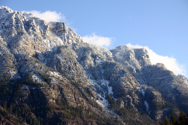 The Creston, British Columbia Skimmerhorn mountains on a bright sunny day after receiving a dusting of snow.